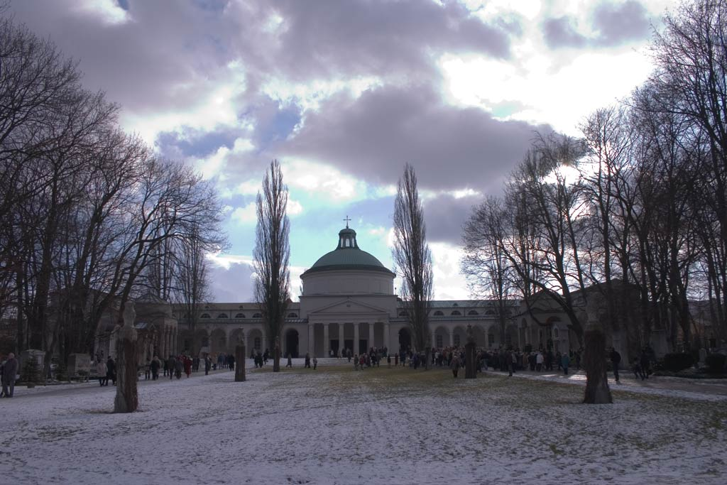 Eastern Cemetary in Munich, Bavaria